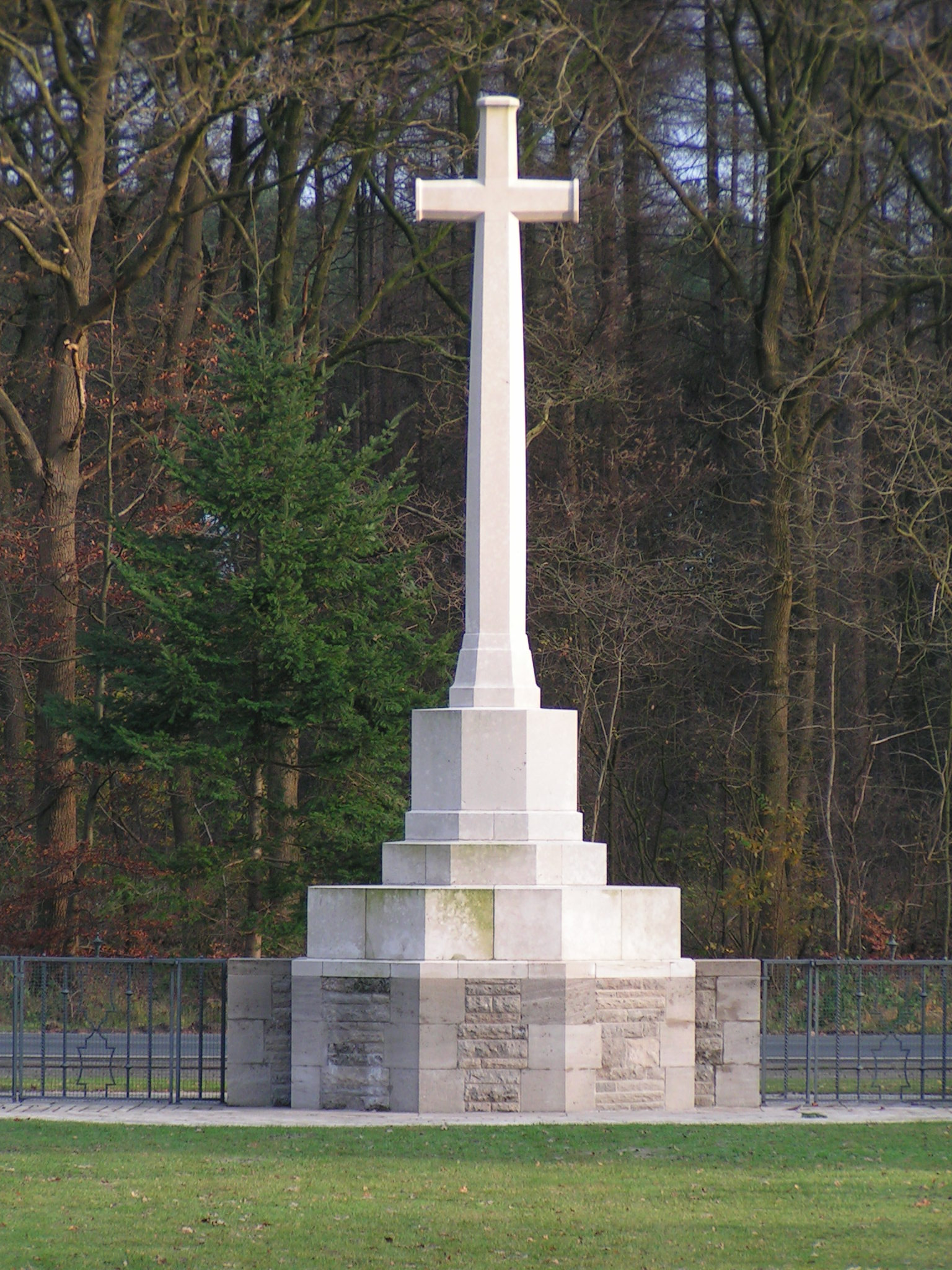 Sage War Cemetery near Oldenburg